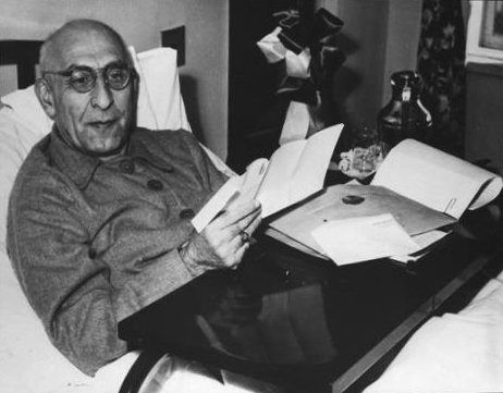 Prime Minister Mohammad Mossadegh of Iran in a New York City hospital where he went to regain his strength shortly after his arrival in the United States.